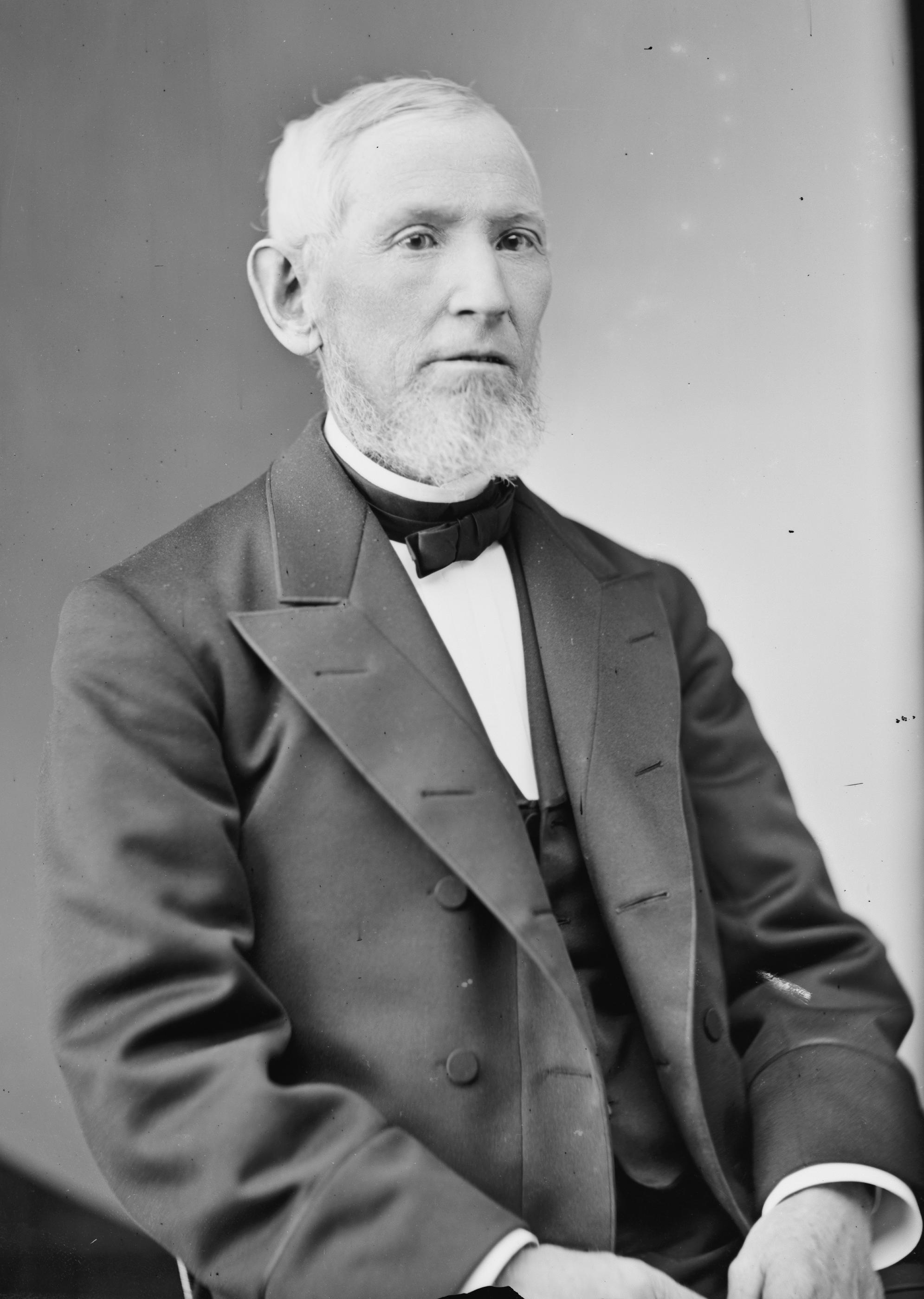 William Godshalk. Library of Congress description: "Godshalk, Hon. Wm. of Pa. Private in Co. K., 153 Pa. Vol. Inf. U.S.A. from Oct. 11, 1862 - July 23, 1863"